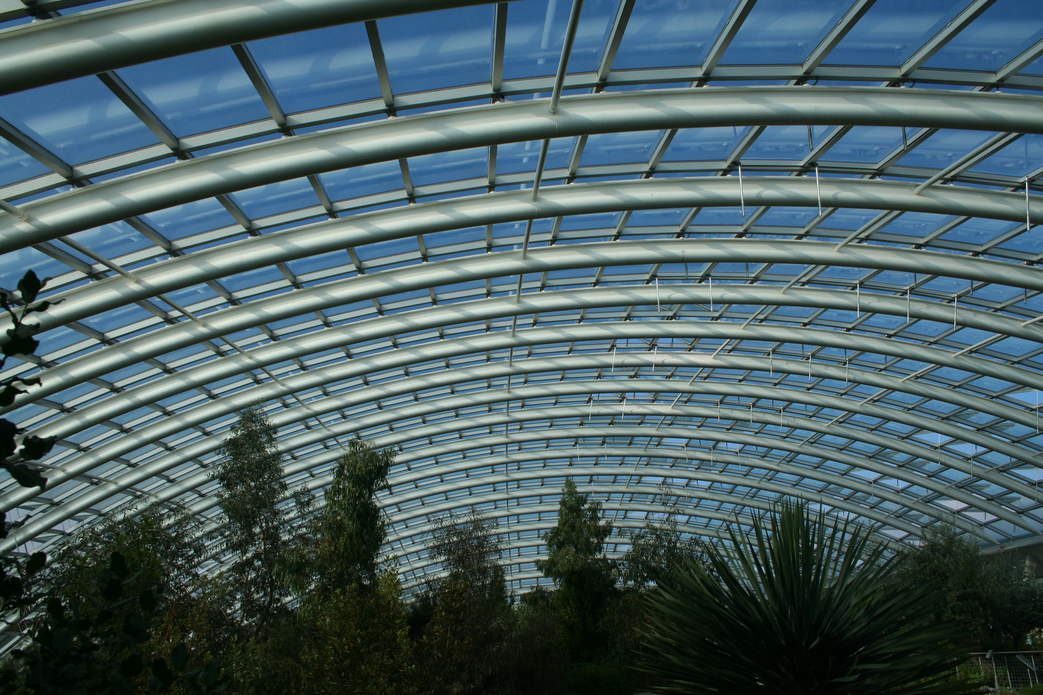 National Botanic Garden of Wales, Llanarthne, Carmarthenshire, Wales